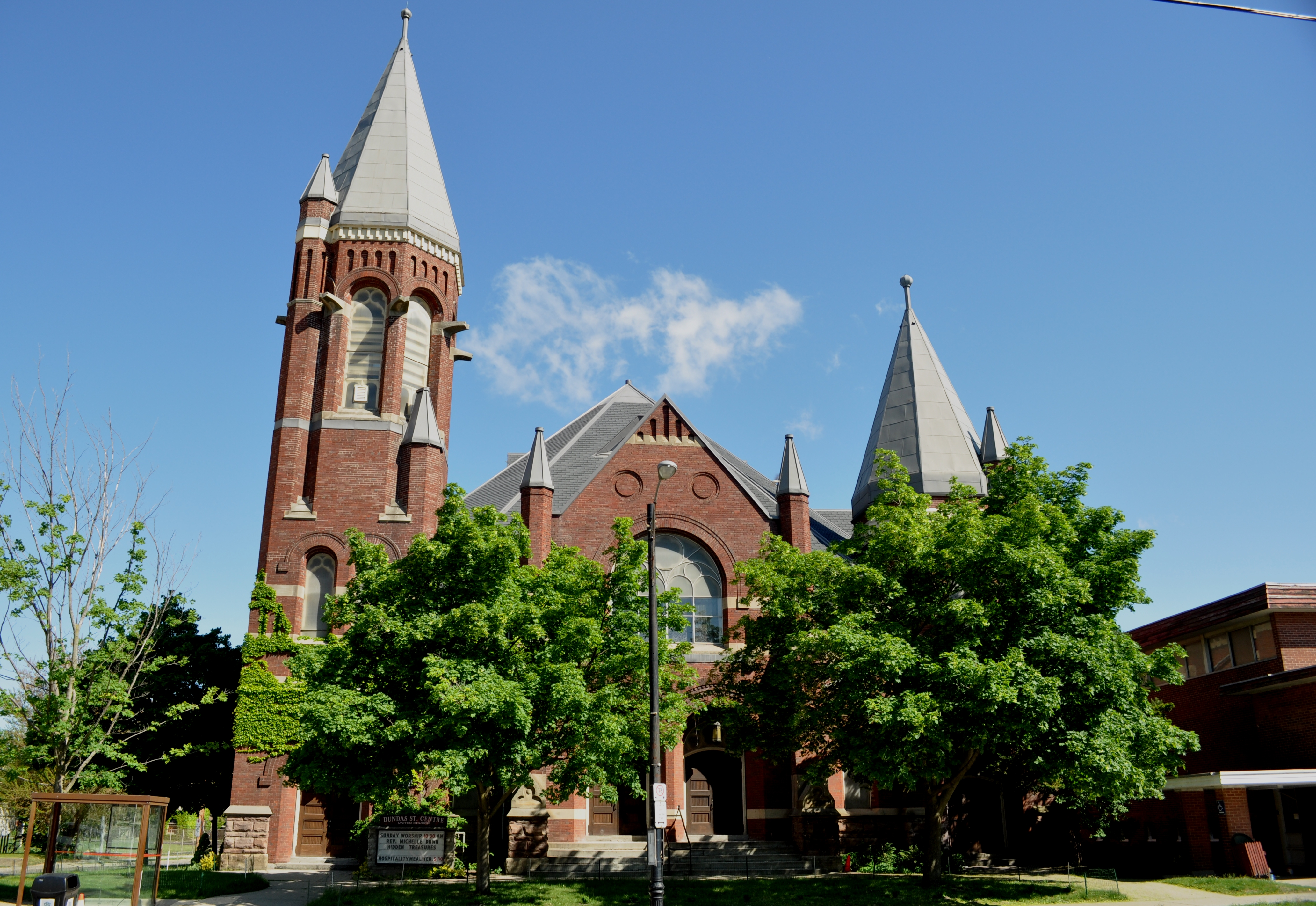 482 Dundas St Centre United Church, London, Ontario